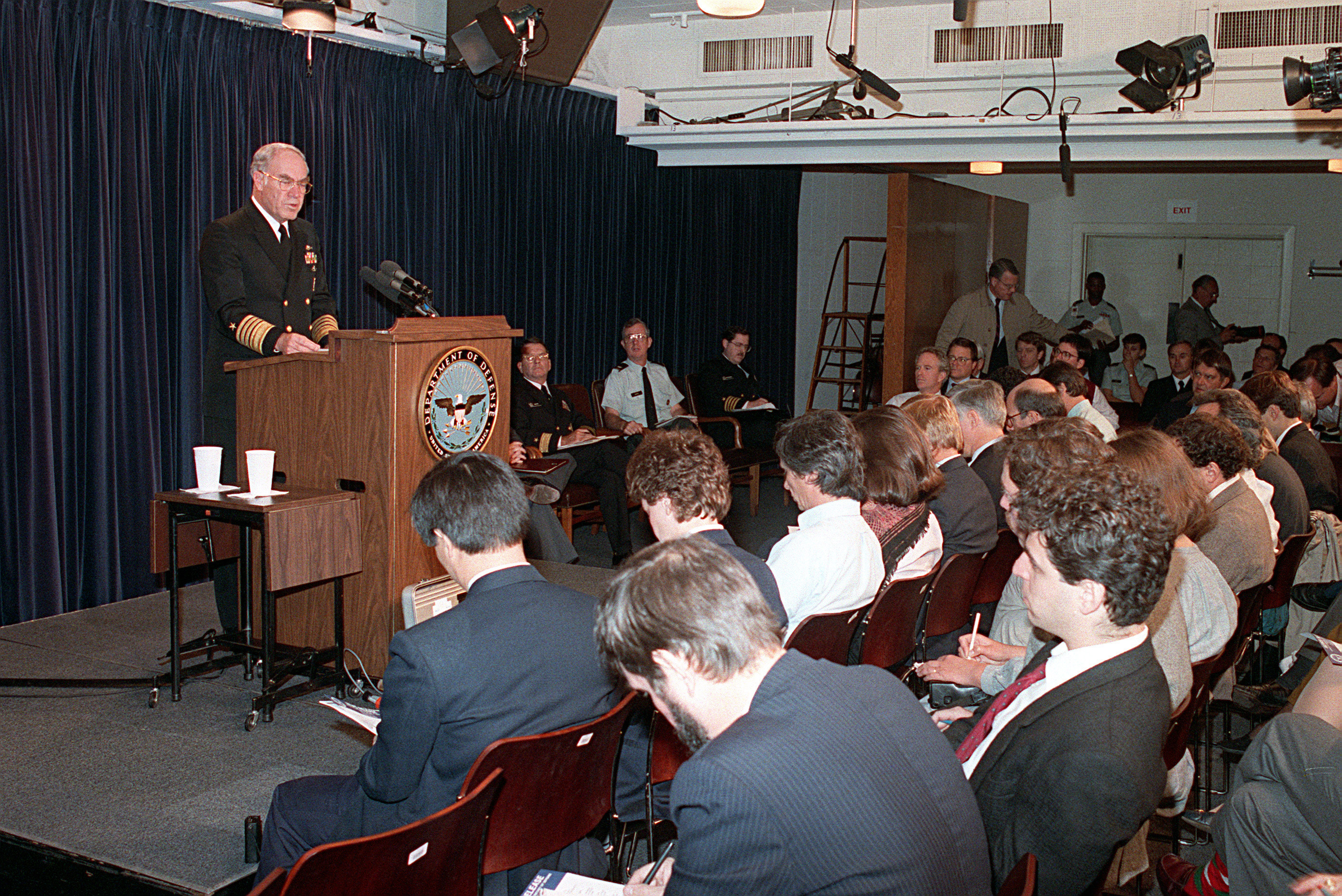 Chief of Naval Operations ADM Frank B. Kelso II reads a statement during a press conference at the Pentagon regarding the Navy's investigation of the April 19, 1989, explosion aboard the battleship USS IOWA (BB-61). After a review of all available evidence concerning the cause of the blast, the Navy's official conclusion is that the exact cause cannot be determined and Clayton Hartwig, who was blamed in the initial investigation, is cleared.